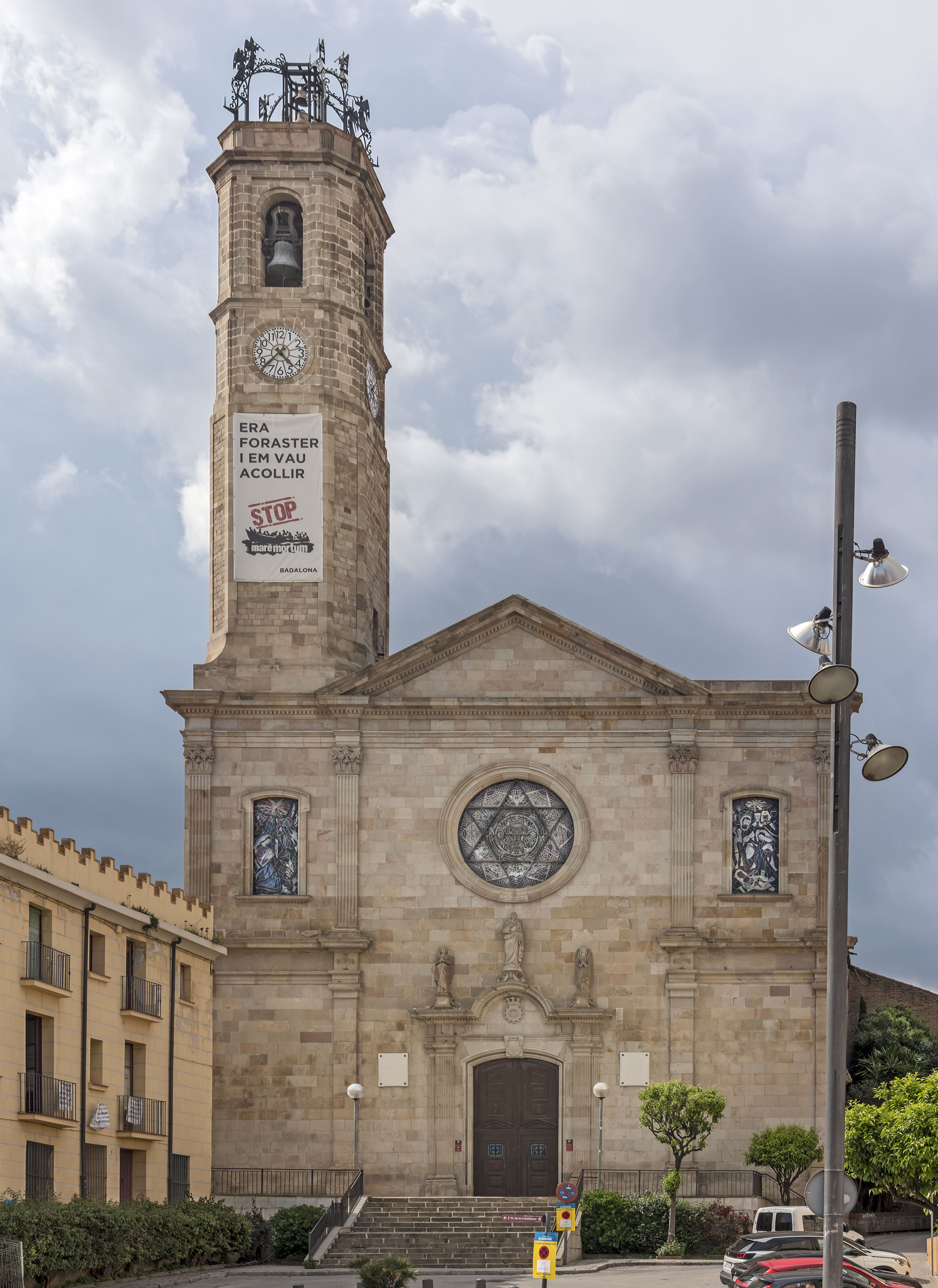 The church of Santa Maria i catifa de Corpus in Badalona by Francesc Rogent i Pedrosa.